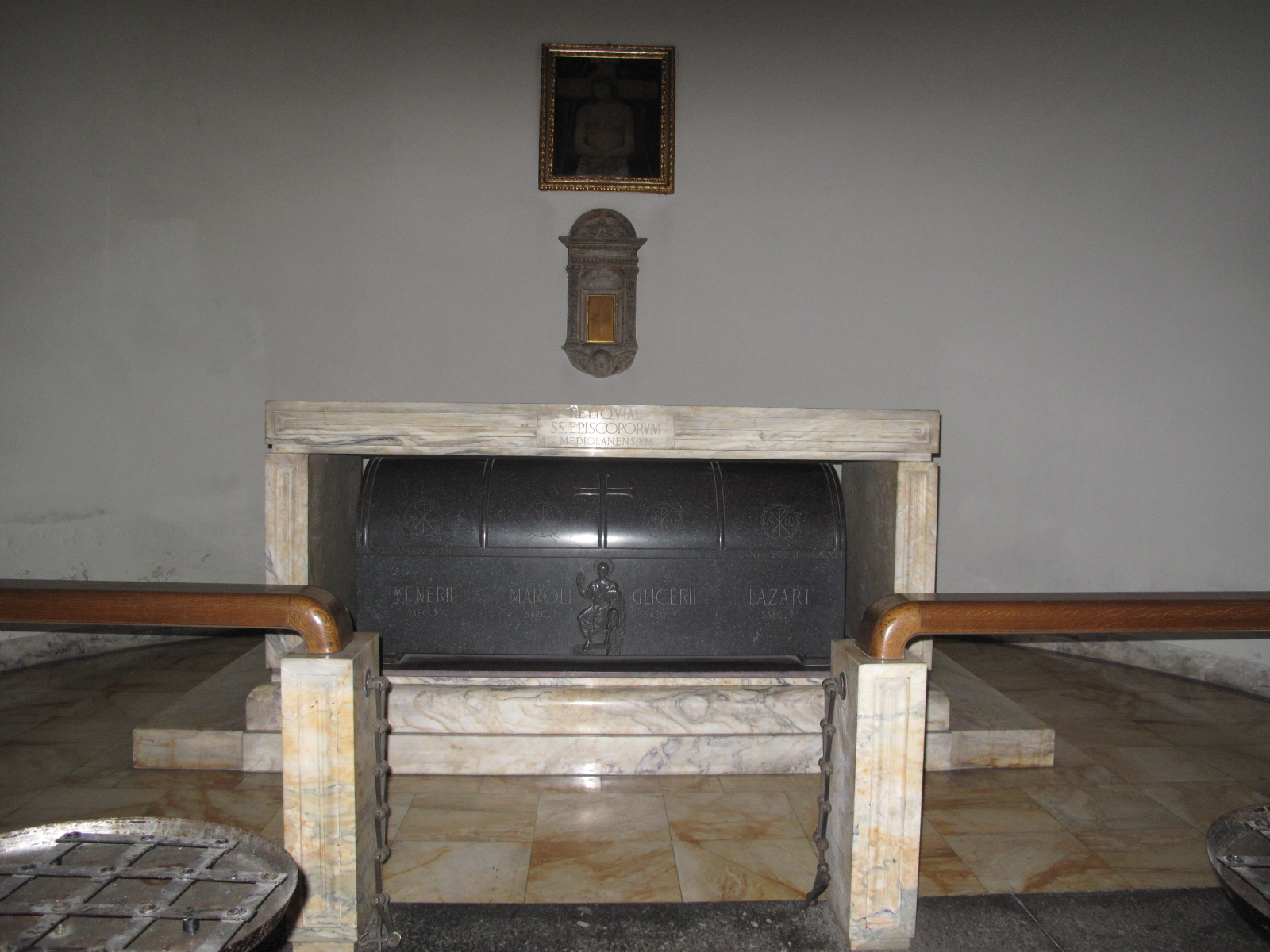 Inside view of San Nazaro Maggiore basilica in Milan. Niche in the left Transept. Altar with sarcophagus containing the corpses of Saint Venerius, Marolus, Glycerius, Lazarus, bishops of Milan